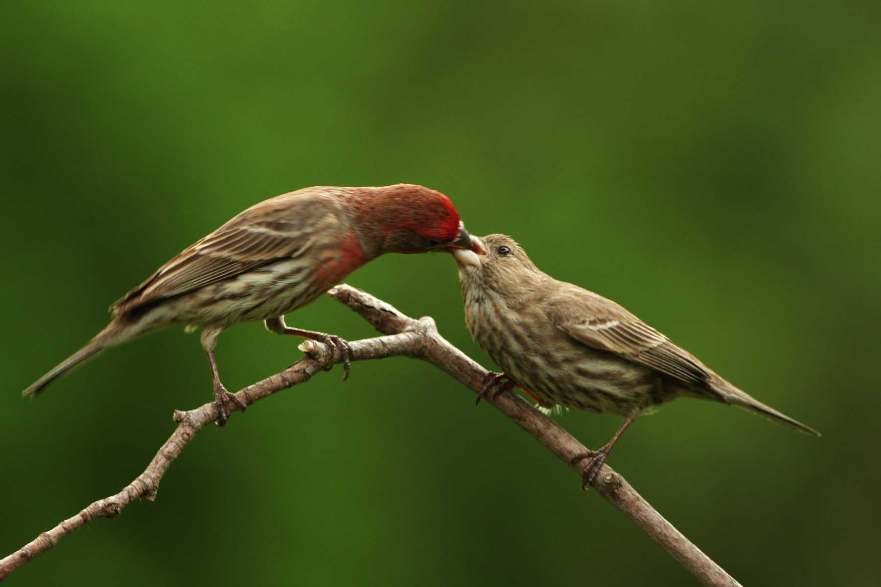 House Finches at John Heinz National Wildlife Refuge at Tinicum, Pennsylvania, USA.